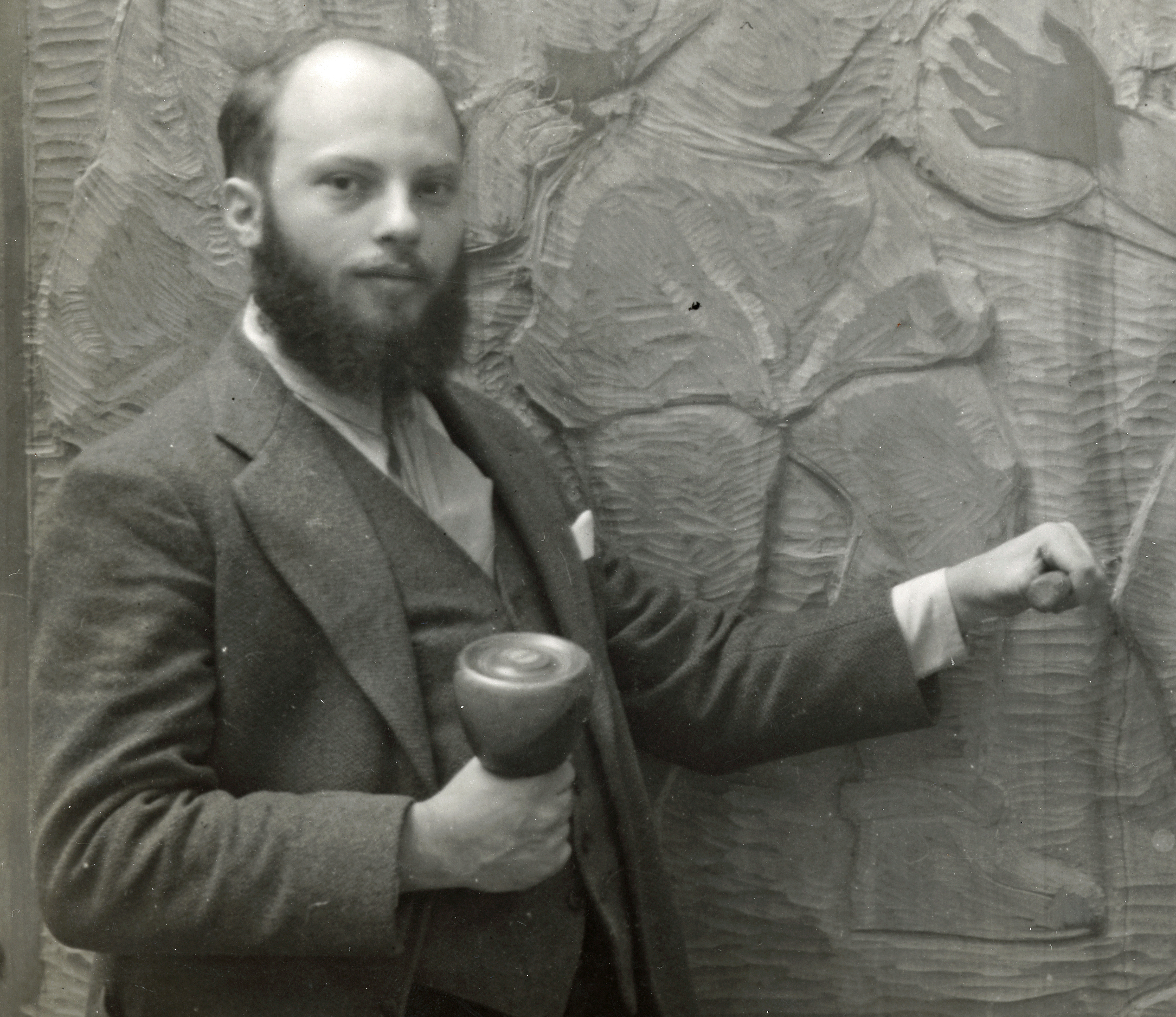 Horn standing before his sculpture, holding a chisel and mallet. Identification on verso (typewritten): Artists at Work on Sculpture for Seward Park High School, Essex, Grand and Ludlow Sts. NYC Location: Girls' Gymnasium; Title: Girls in Sports; Medium: Wood-carving; Artist: Milton Horn